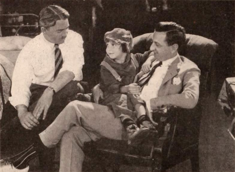 Still from the production of the American comedy drama film My Boy (1921) with director Victor Heerman and Jackie Coogan on the lap of presenter Sol Lesser, on page 42 of the October 15, 1921 Exhibitors Herald.